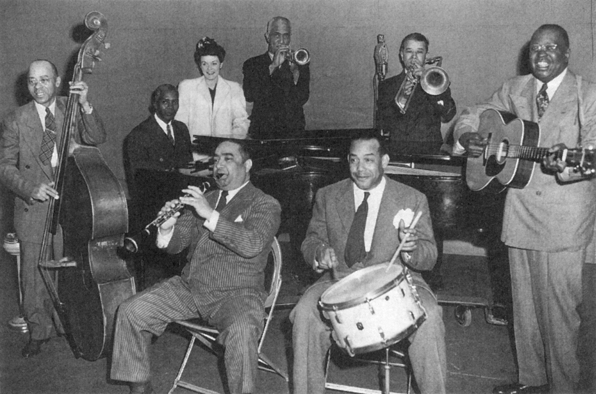 Promotional photograph of the All Star Jazz Group assembled for the CBS Radio program, The Orson Welles AlmanacPhotograph was taken prior to the band's first performance on the CBS Pacific network series March 15, 1944. The band was assembled in February 1944.